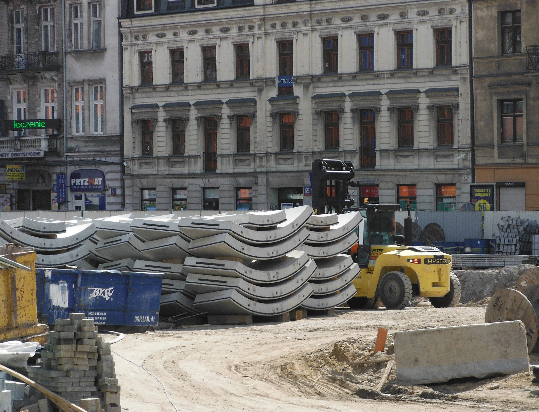 Dworzec Wileński metro station (under construction) in Warsaw (15th of August 2013).